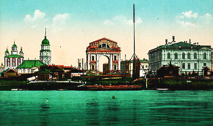 "Moskovskiye vorota" in Irkutsk at XIX century